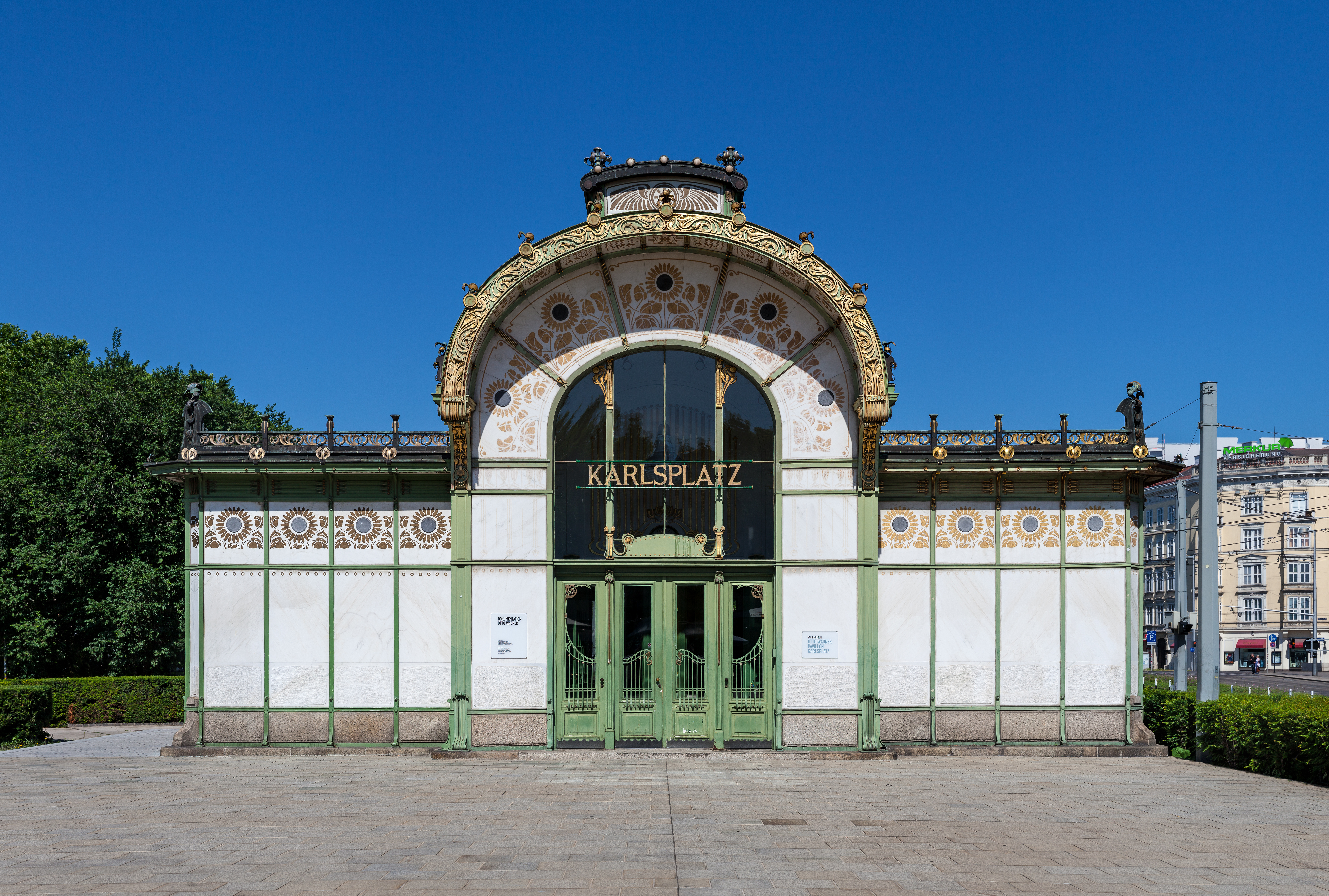 Otto-Wagner-pavilion in Vienna, Austria